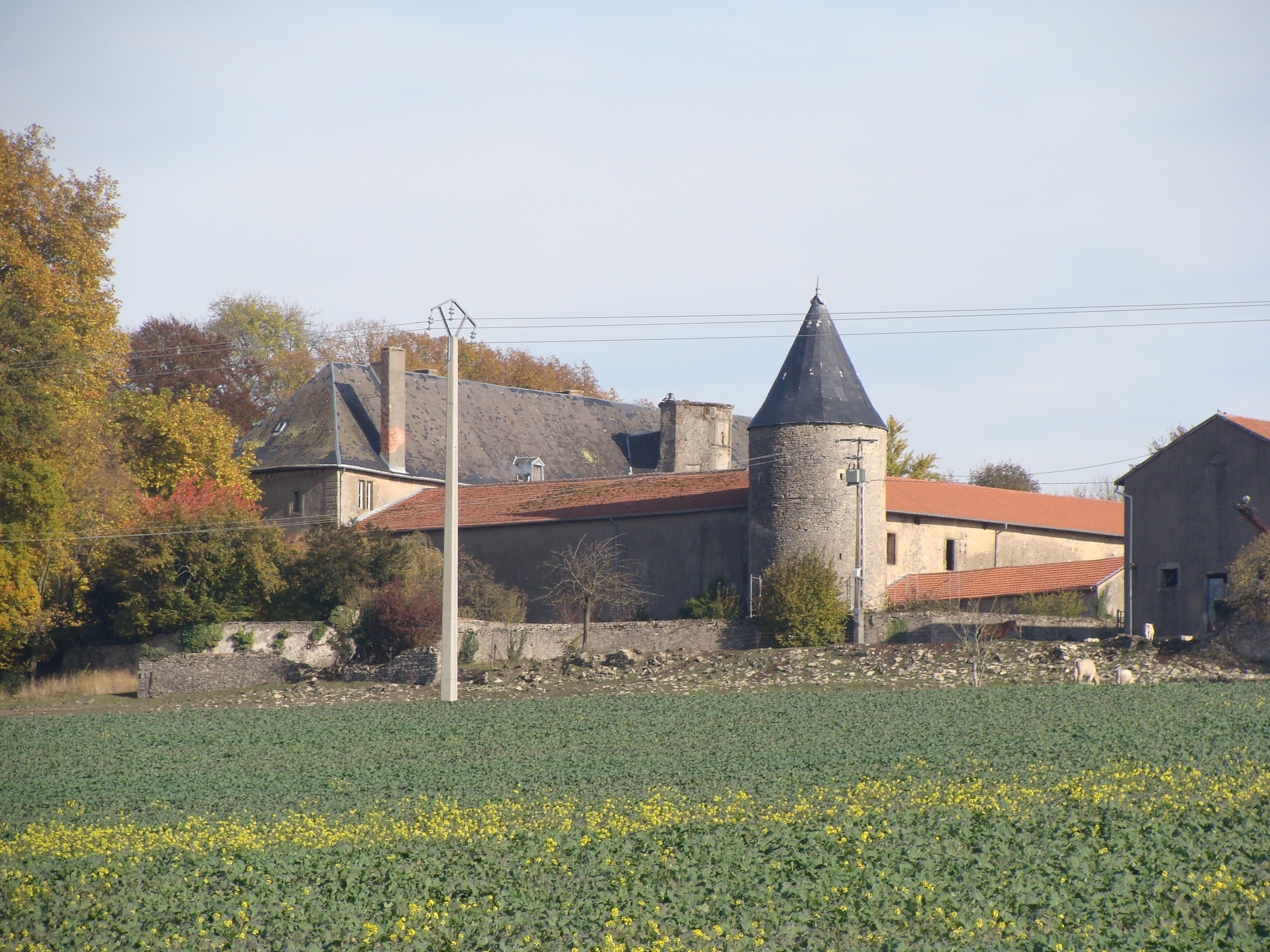 Helfedange castel